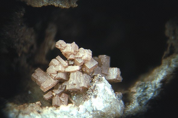 Chlorargyrite Locality: Theuerdank Mine, St Andreasberg, St Andreasberg District, Harz, Lower Saxony, Germany Original description: Group of chlorargyrite crystals within a quarz-geode, grown up free. Width of object: 5mm.